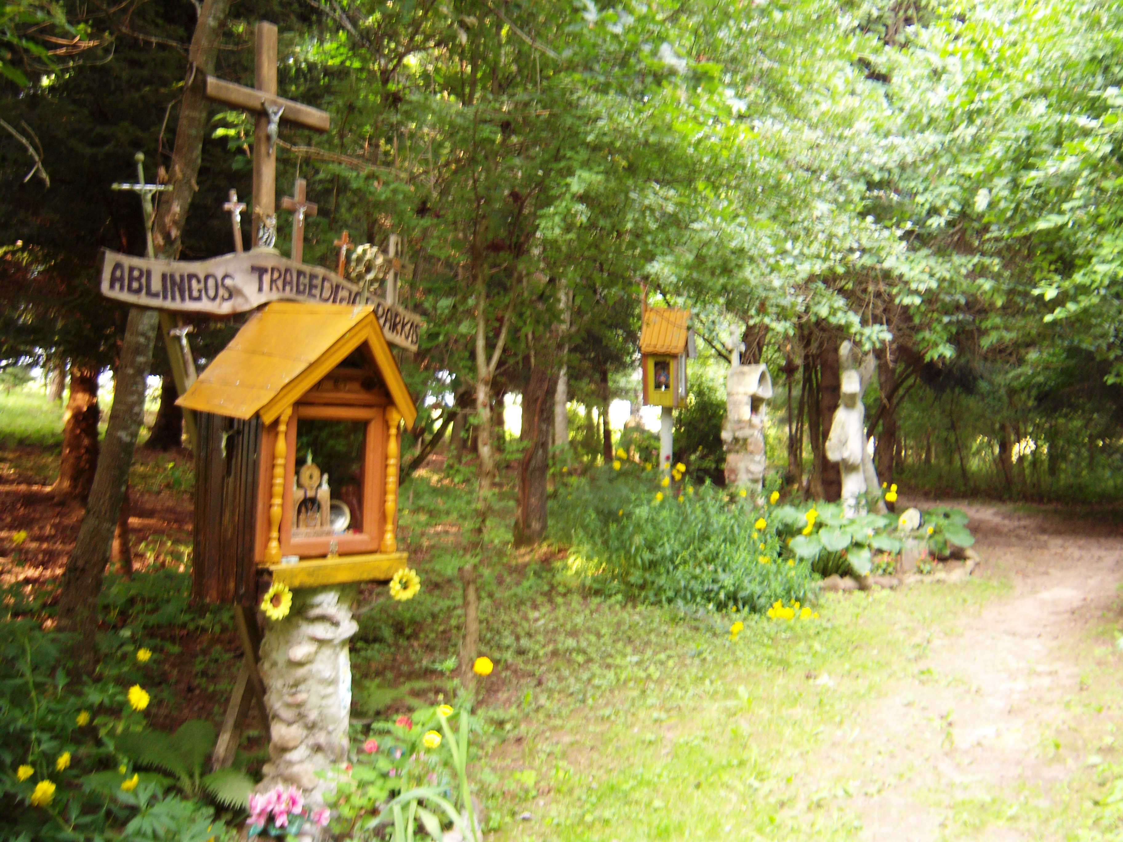 Lourdes in Ablinga, Klaipėda District. Lithuania